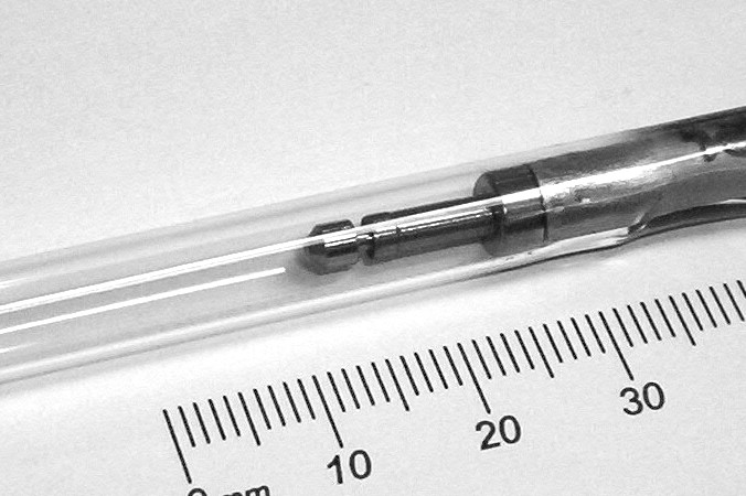 Laser excitation lamp (Krypton arc lamp, app. 2kW, water cooled), cathode detail of laserl2.jpg